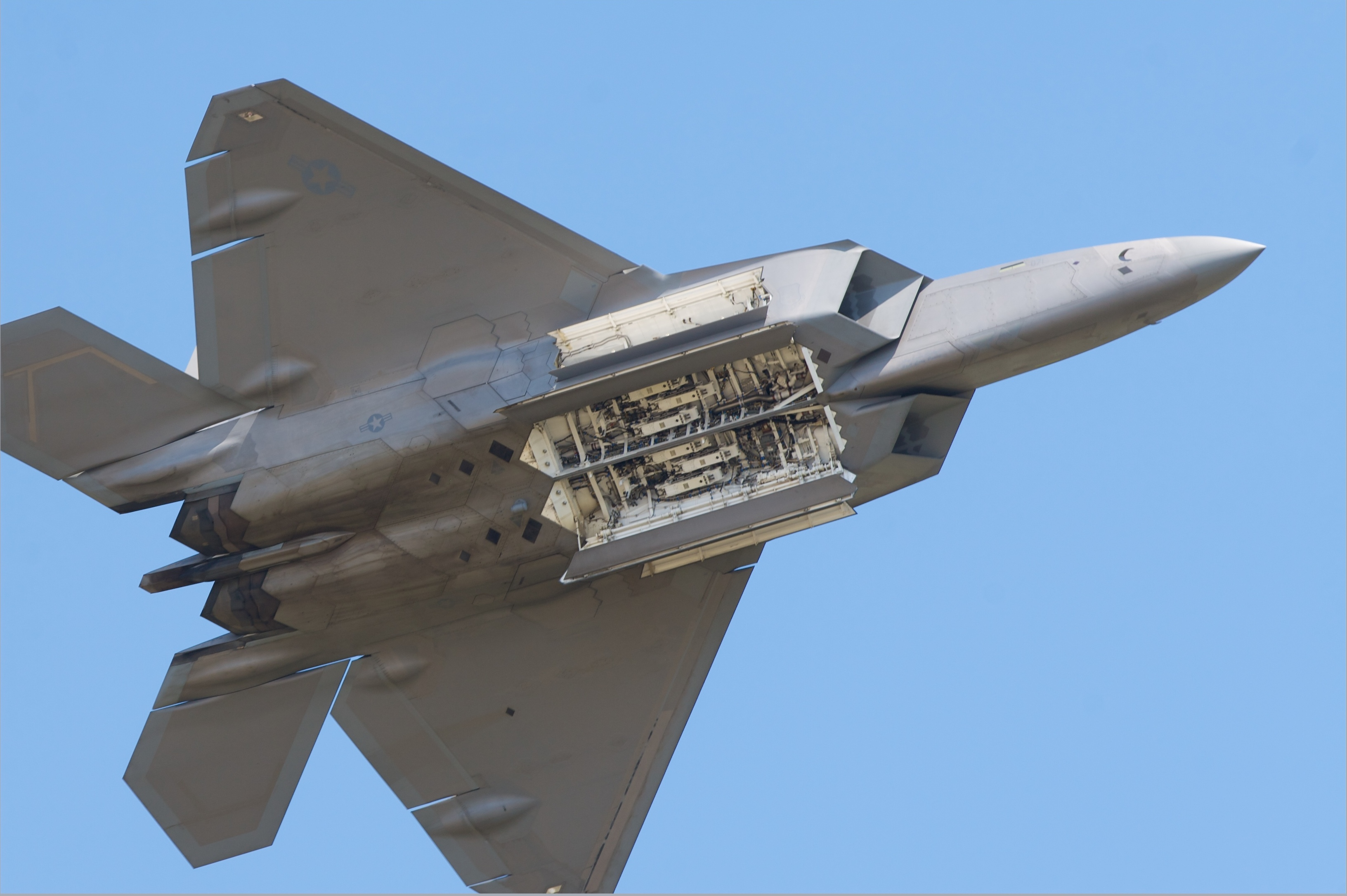 A Lockheed Martin F-22A fighter shows off its internal weapons bays at the 2008 Joint Services Open House (JSOH) airshow at Andrews AFB. The F-22 holds all of its air-to-air and air-to-ground weapons in these internal bays so as to preserve its high stealth characteristics. Photo taken with my Canon 30D and through a rented Canon EF 300mm f/2.8L IS USM lens.